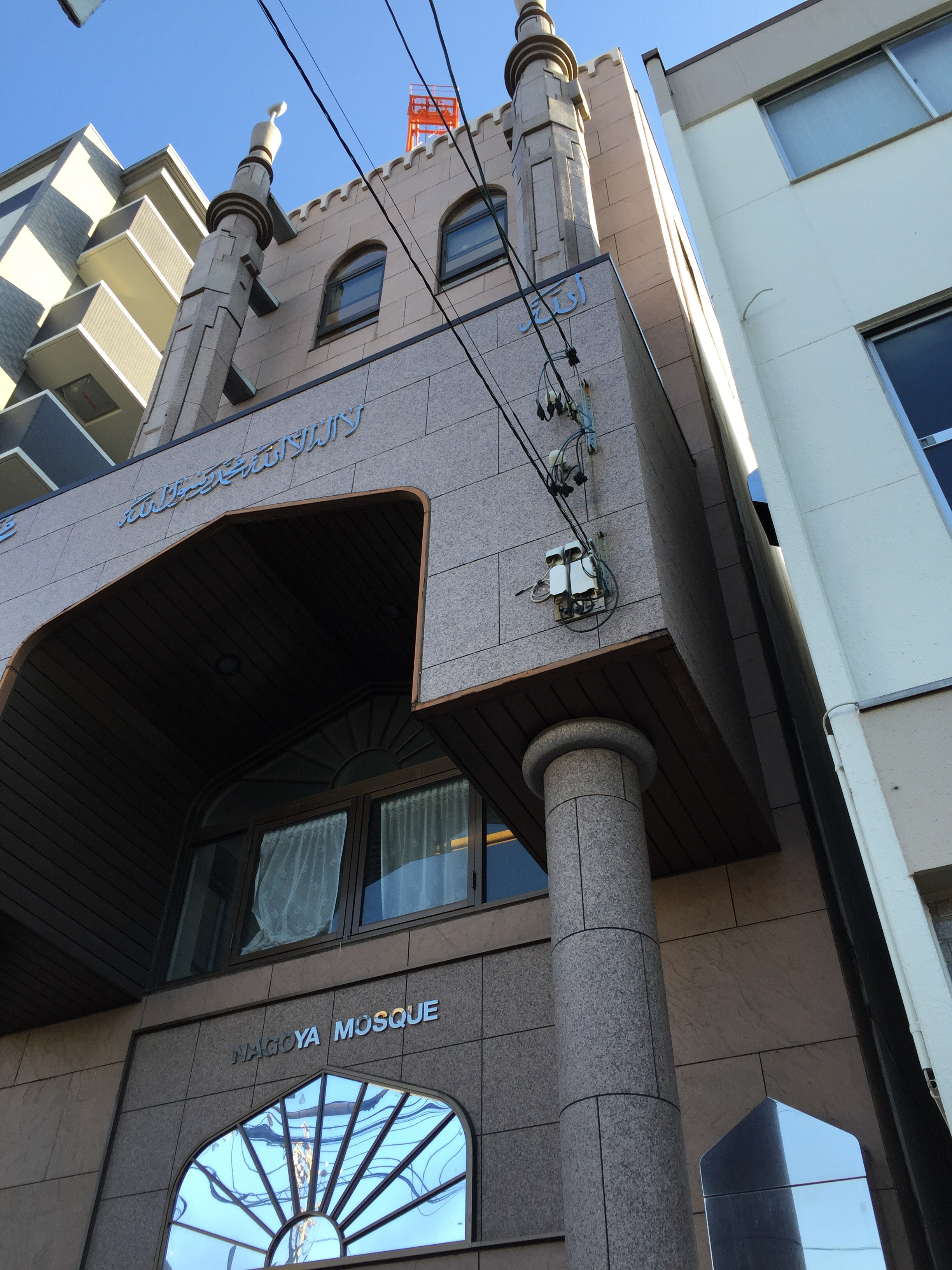 a mosque in nagoya